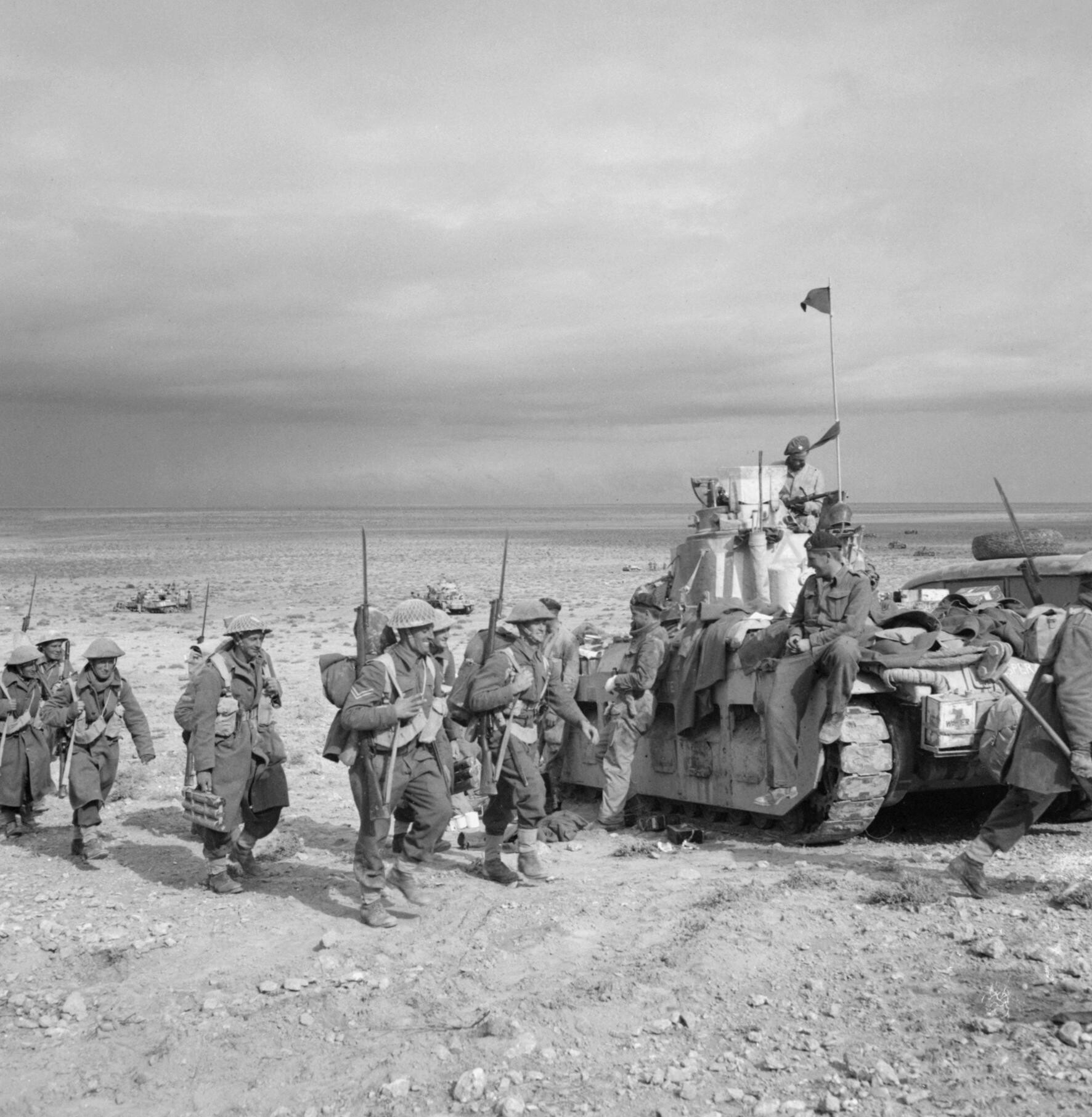 Infantry of the 2nd New Zealand Division link up with Matilda tanks of the Tobruk garrison during Operation 'Crusader', Libya, 2 December 1941. After some of the heaviest fighting of the North Arican campaign, infantry of the 2nd New Zealand Division link up with Matilda tanks of the Tobruk garrison. The New Zealanders had fought along the coast road to relieve Tobruk and end the eight month siege.